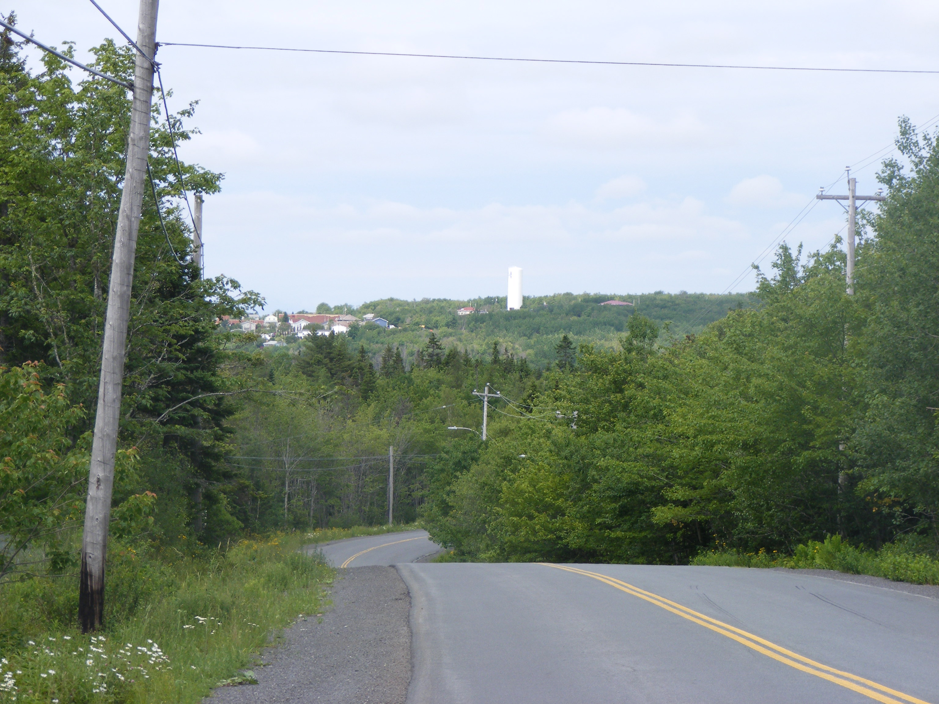 The road to North Preston, with its iconic water tower in view.